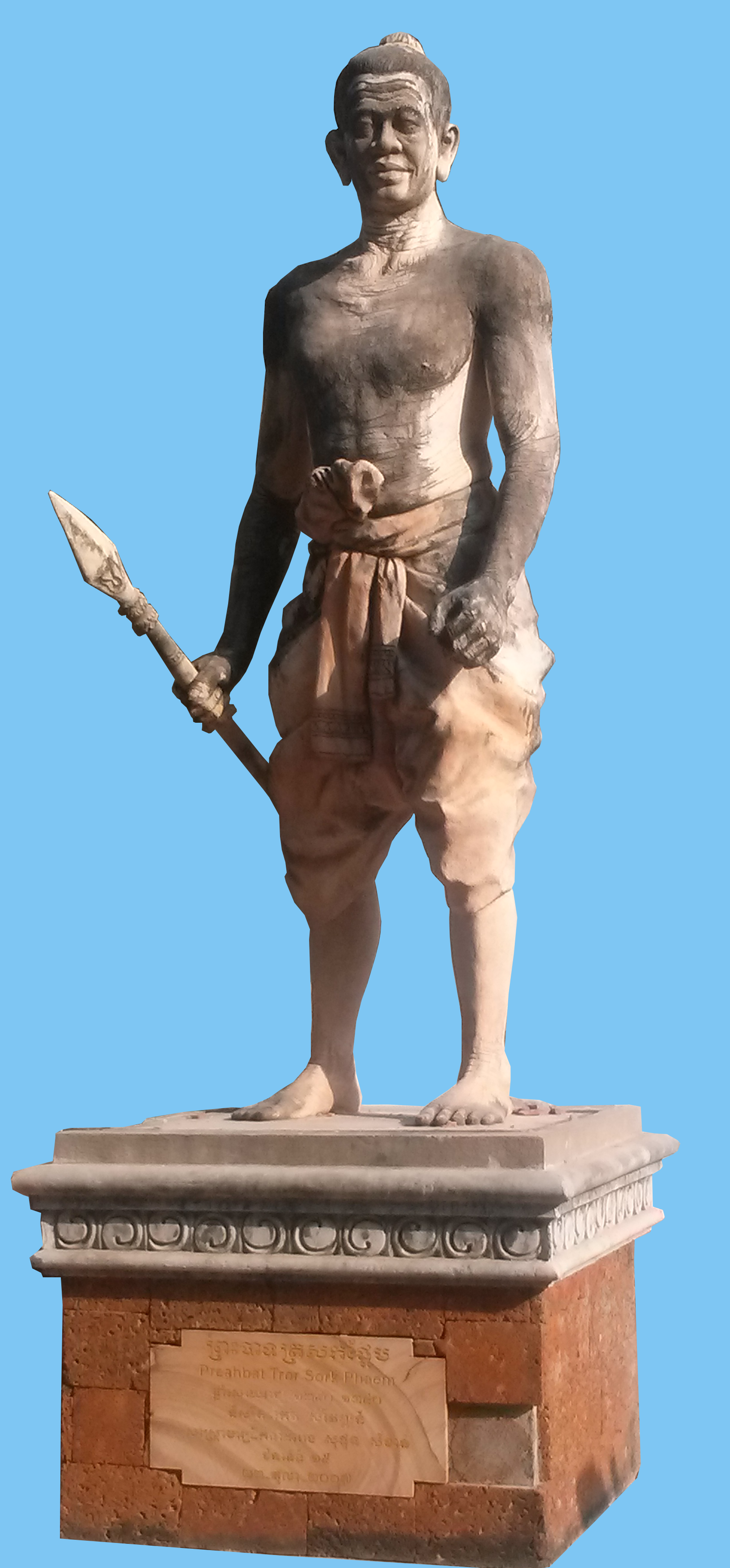 This image was taken by Me at Royal University of Fine Arts in Phnom Penh.